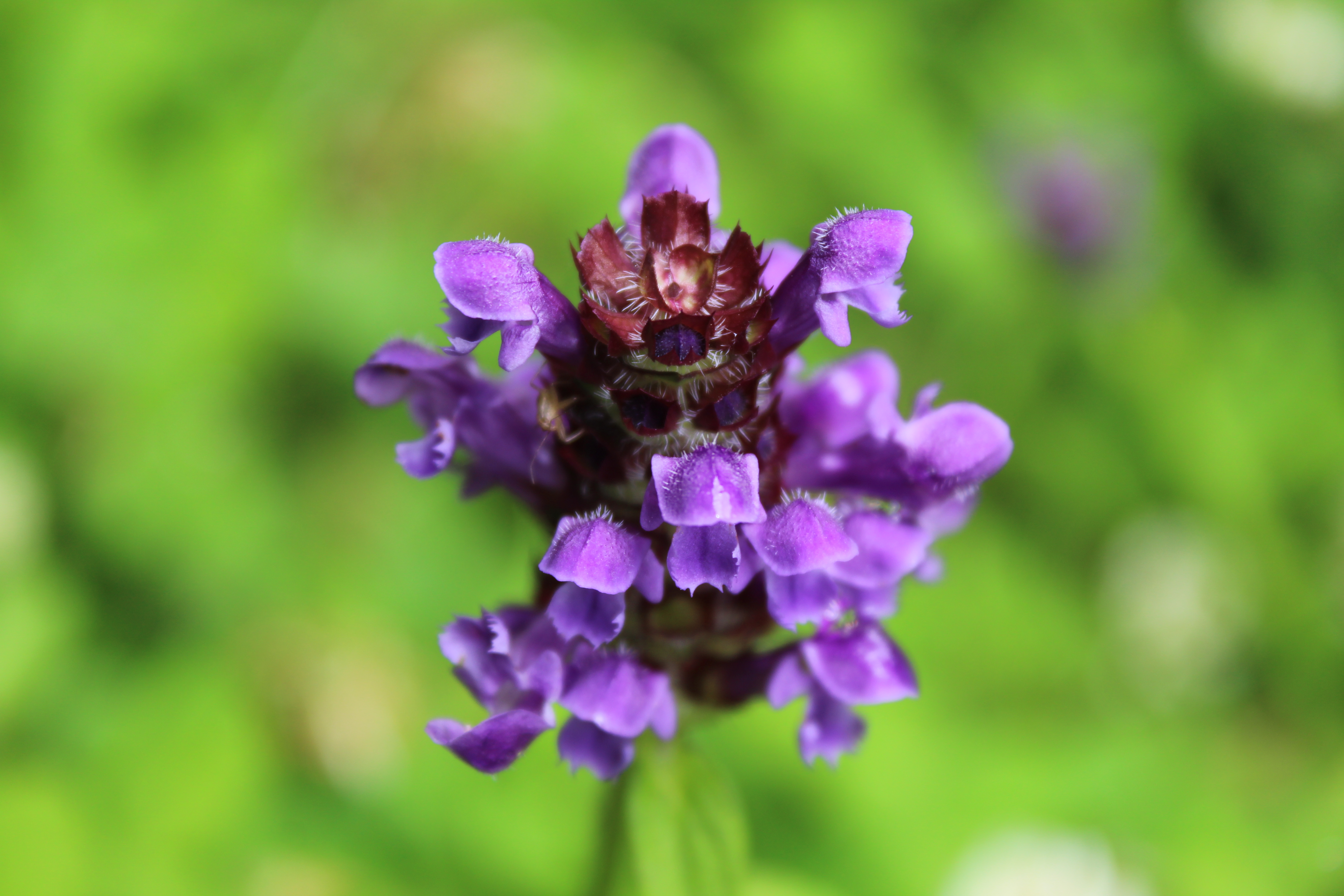 Detail of the flower of Prunella vulgaris, photographed in the south of Chile, specifically in the commune of Puyehue.